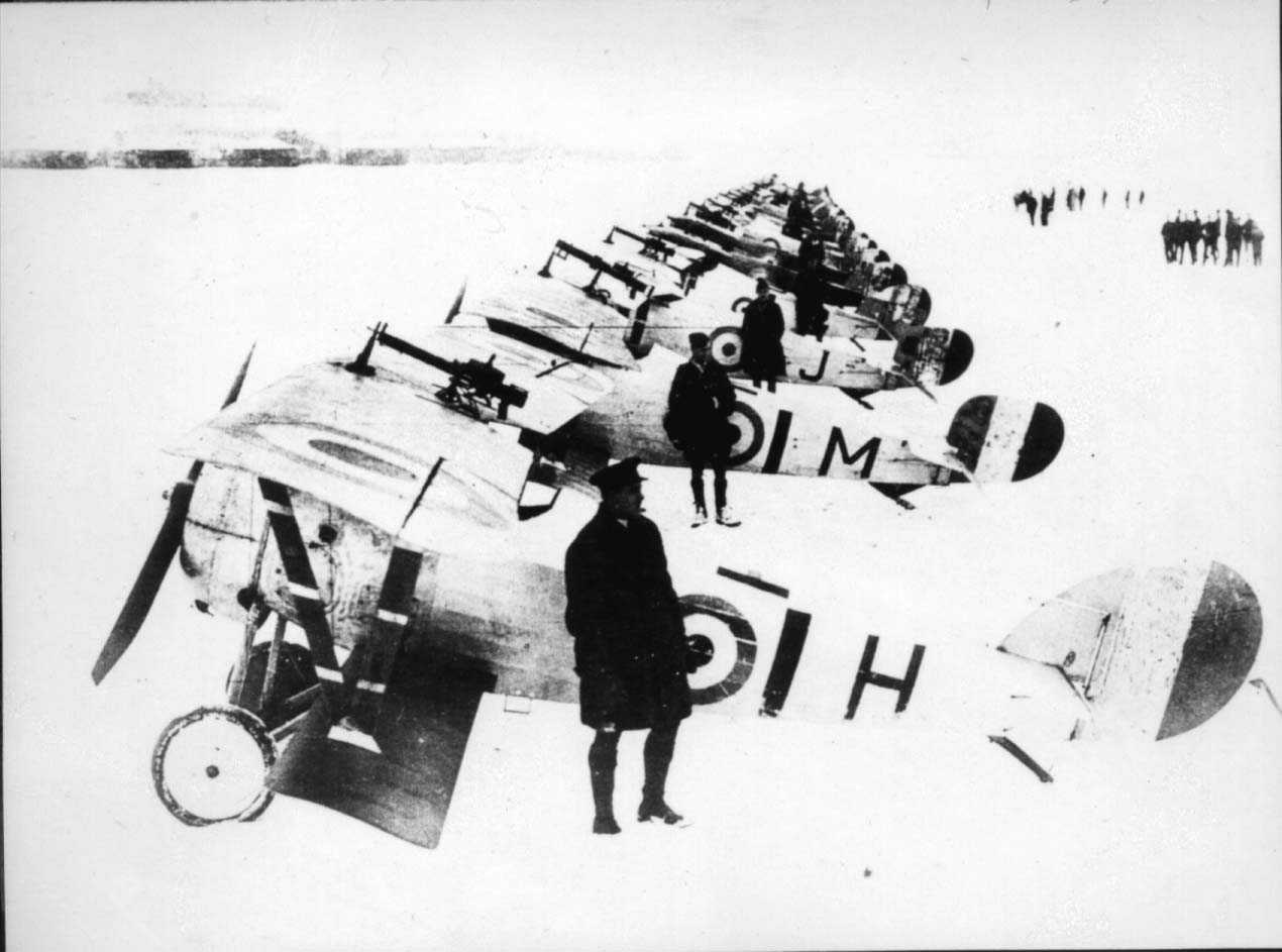 Nieuport 27 in lineup with Nieuport 24s